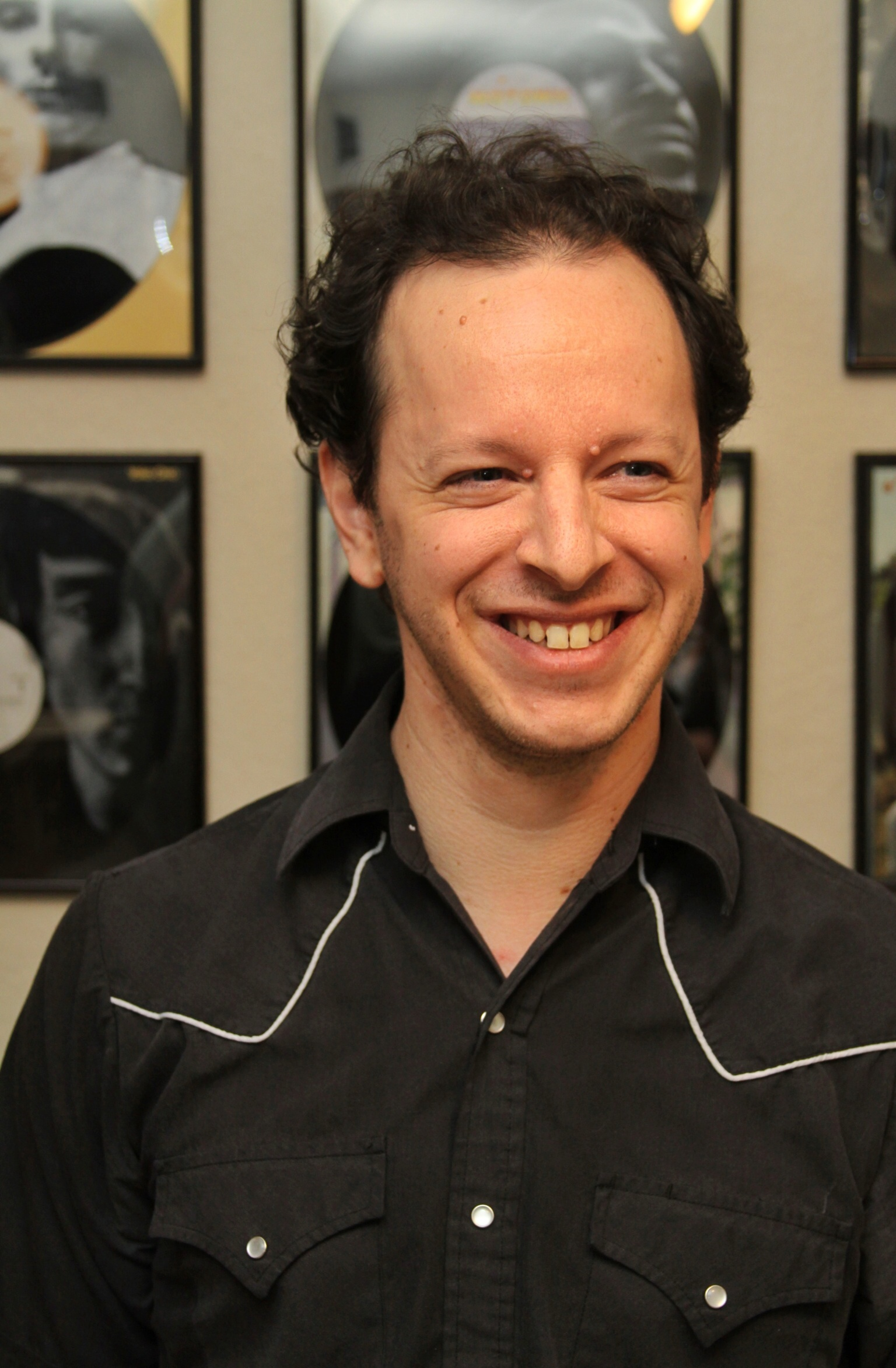 Daniel Edlen creates art on the artifacts of creativity, photo by Zane Ewton